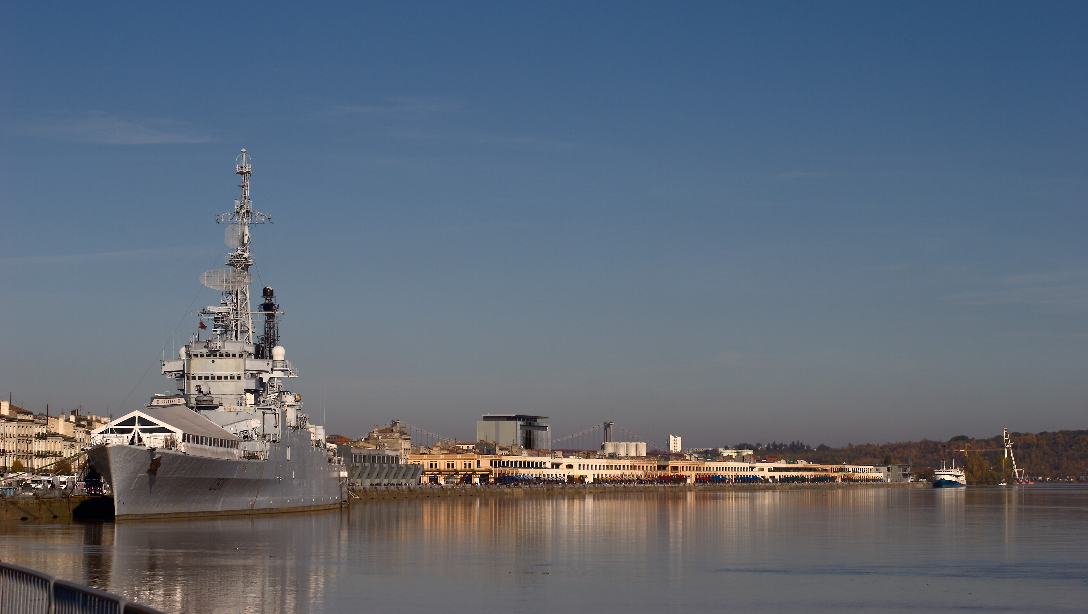 Garonne river and the former french cruiser Colbert in Bordeaux, France.